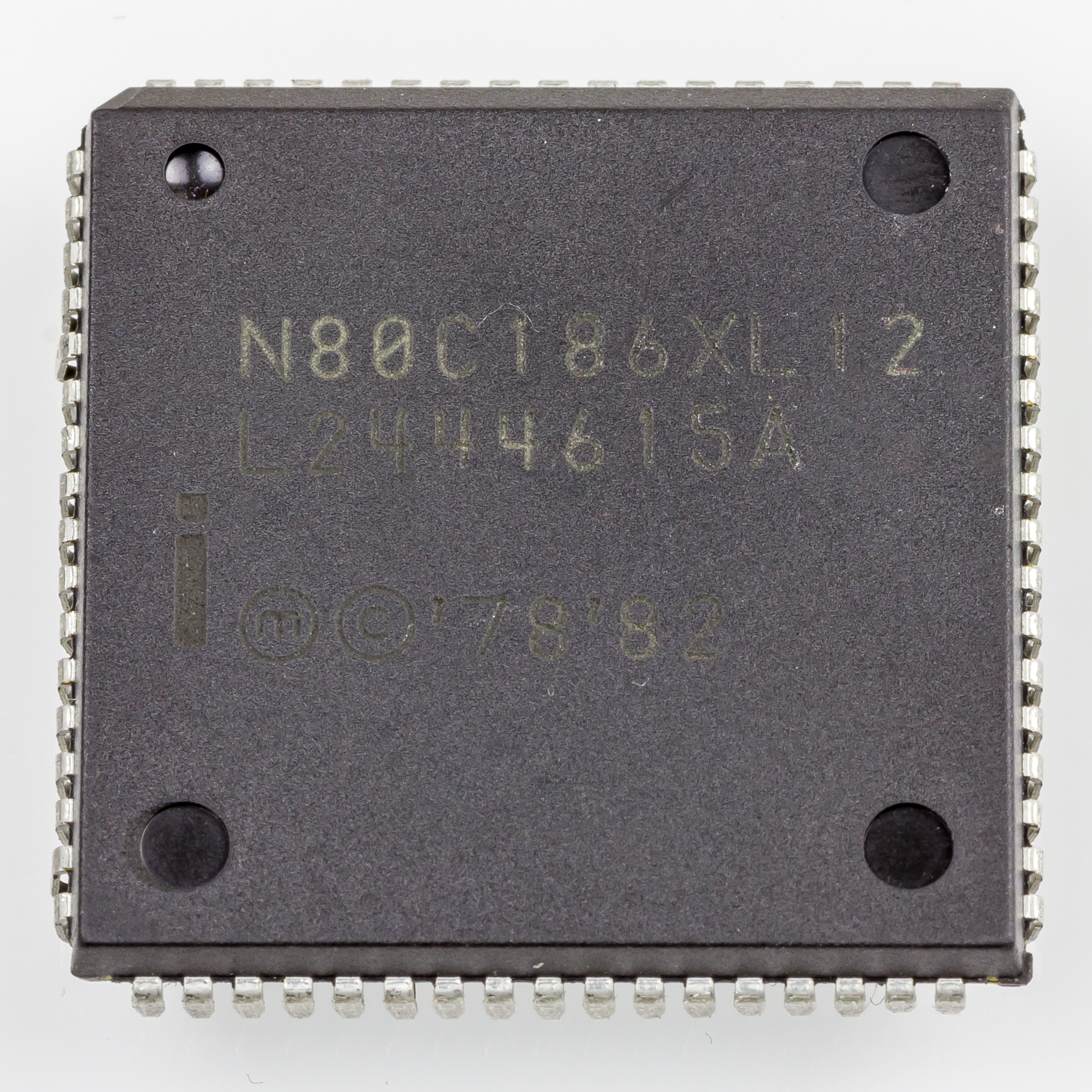 Intel N80C186XL12